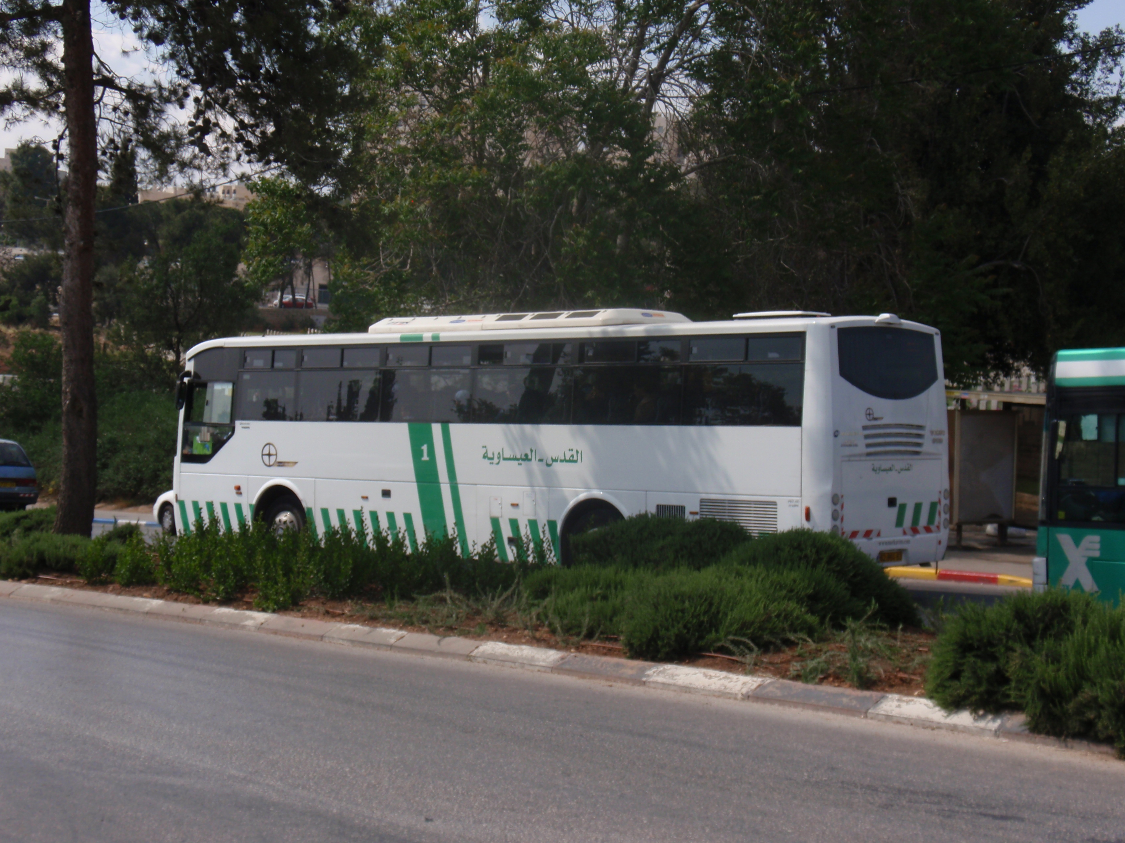 Bus used by the Israeli-Arab population in Jerusalem for destinations in East Jerusalem.